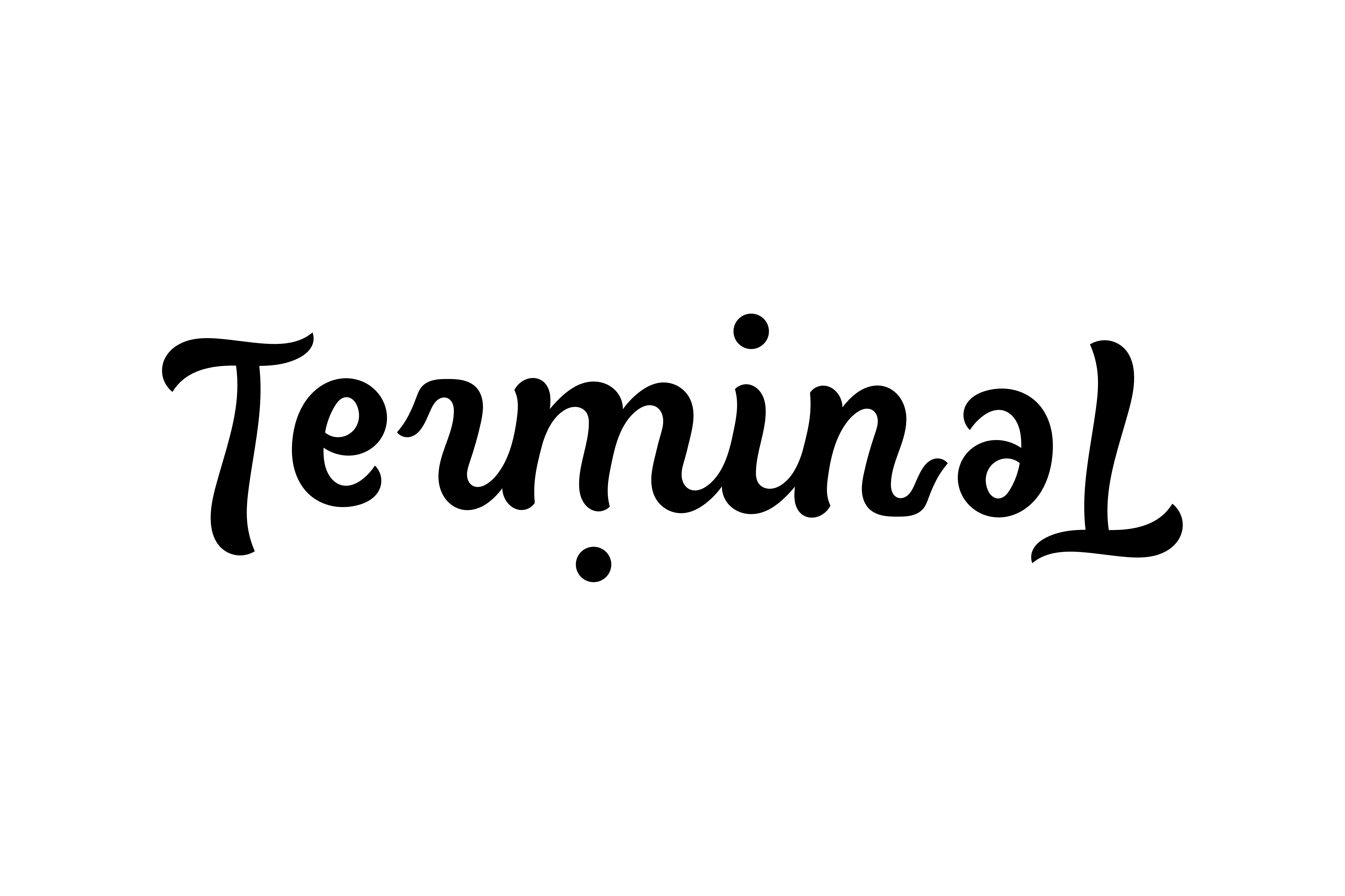 Ambigram Terminal. 180° rotational symmetry.